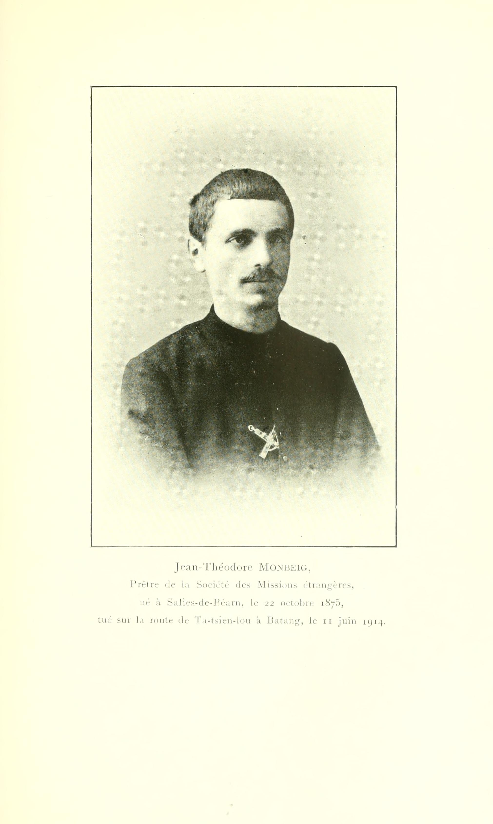 Jean Théodore Monbeig read text